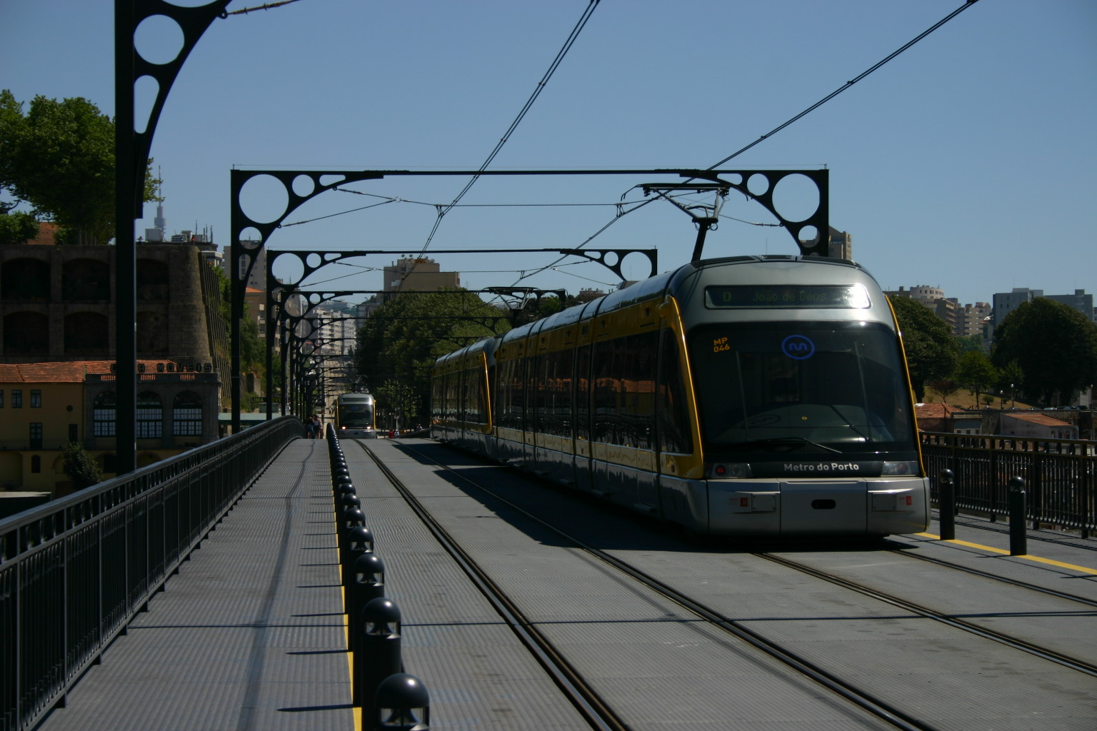 Picture captured by António M.L. Cabral at 31-07-2006